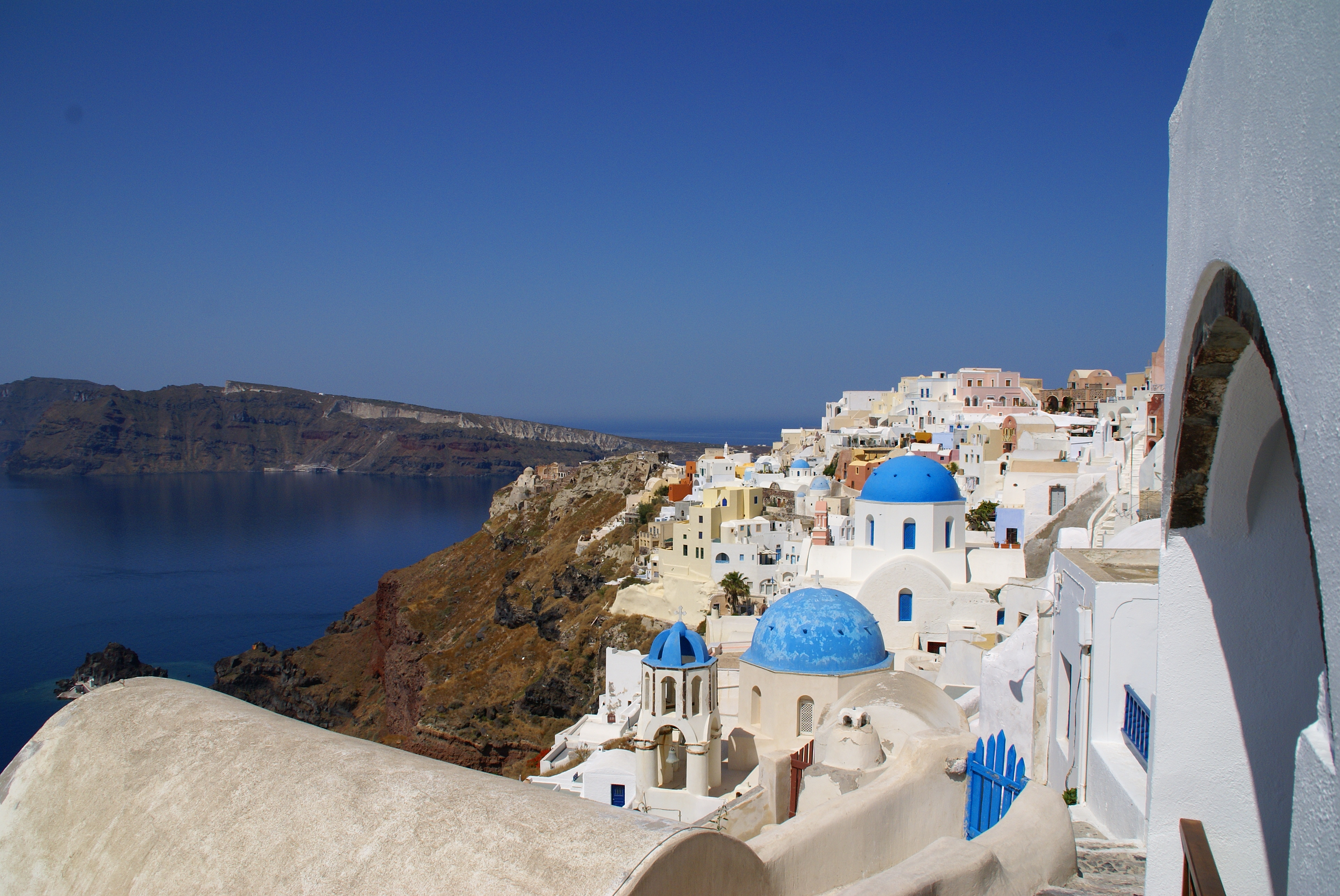 Santoriniscape with churches.